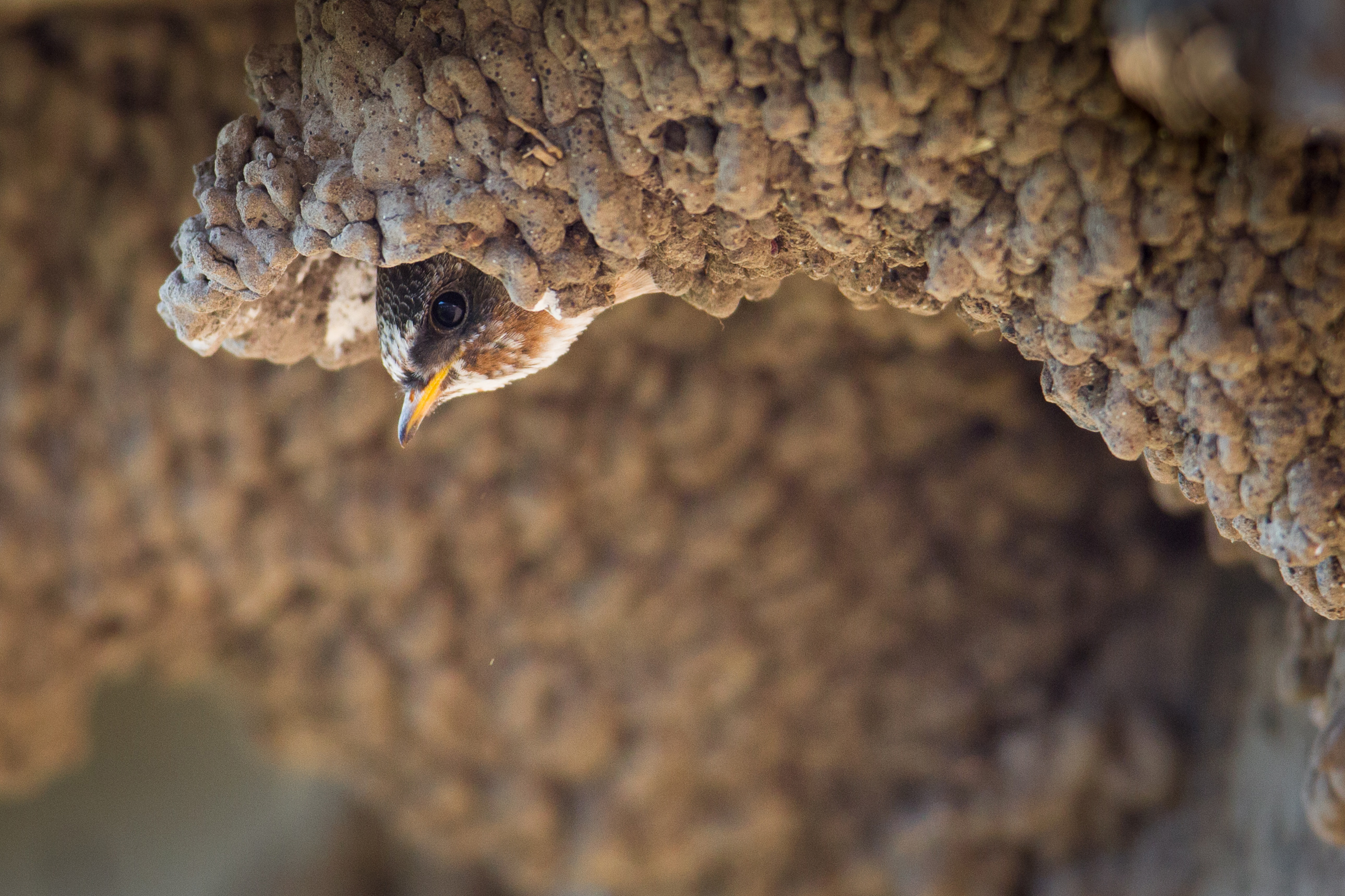 Cliff swallow; Neal Herbert; August 2014; Catalog #19687d; Original #3638